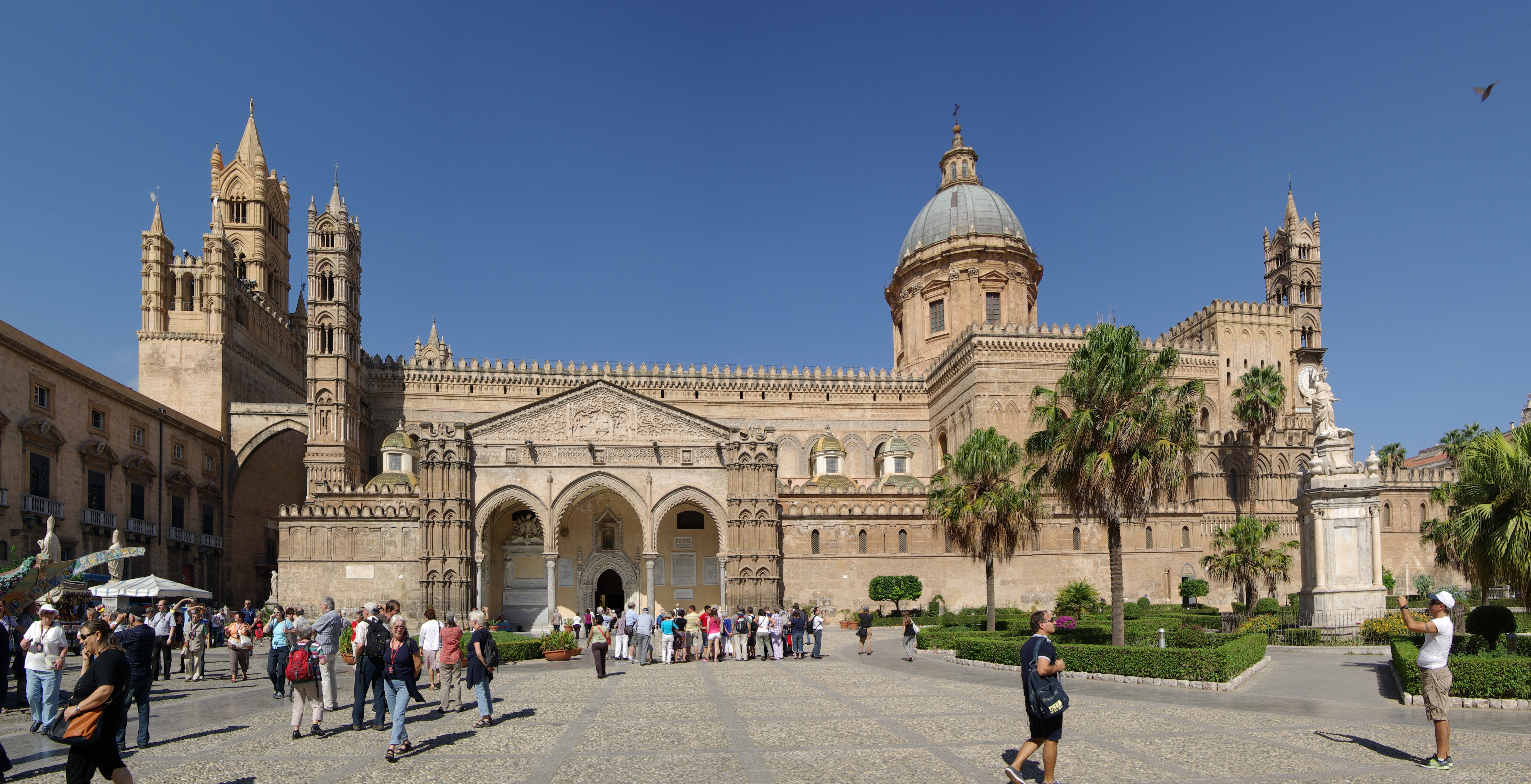 Italy, Sicily, Palermo, cathedral